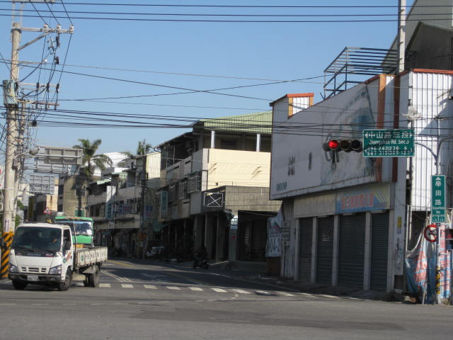 Veiw from the intersection of Syuetian Rd. and Highway No.1B in Wurih,Taichung County.